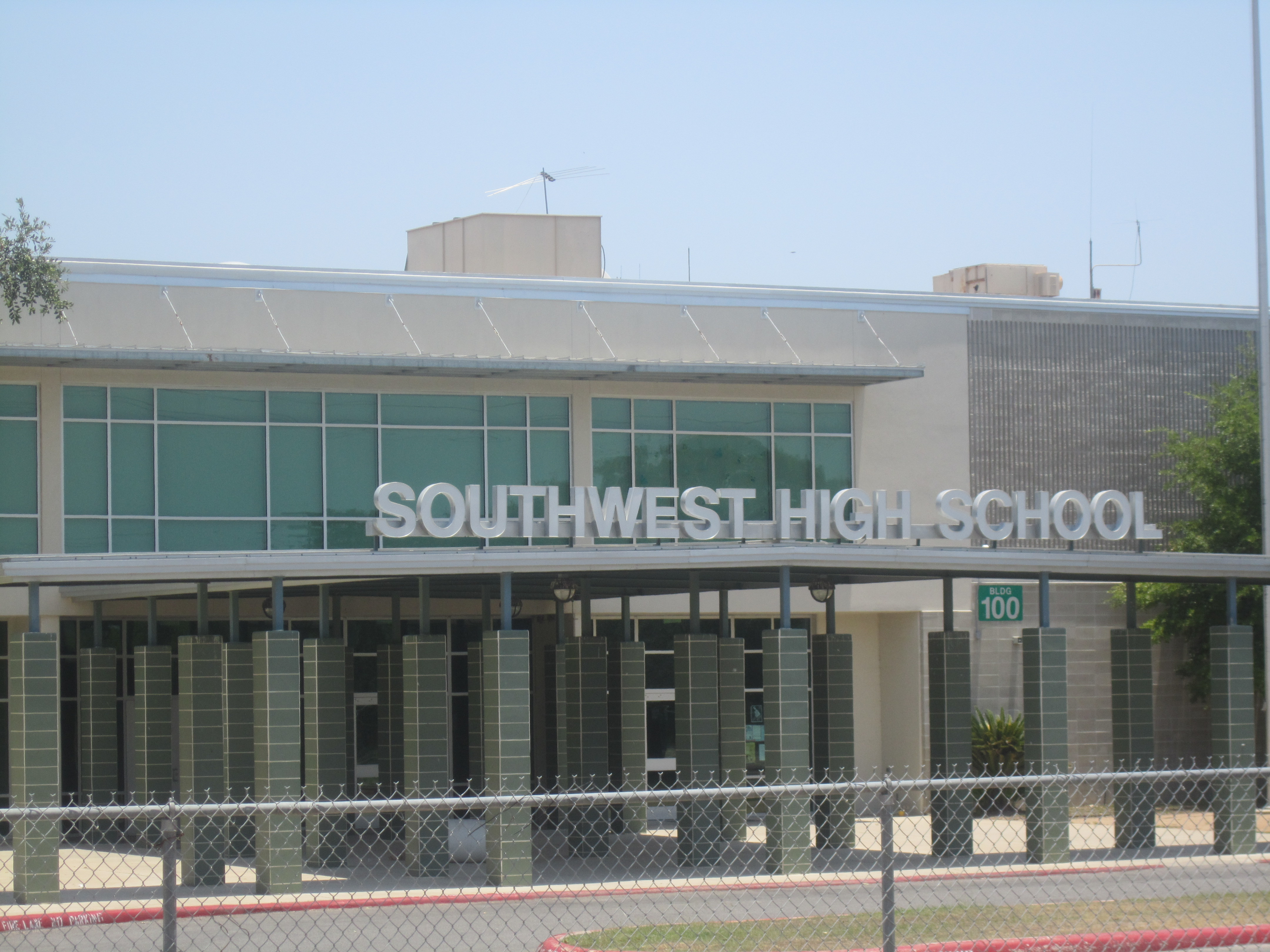 I took photo of Southwest High School in San Antonio, TX, with Canon camera.